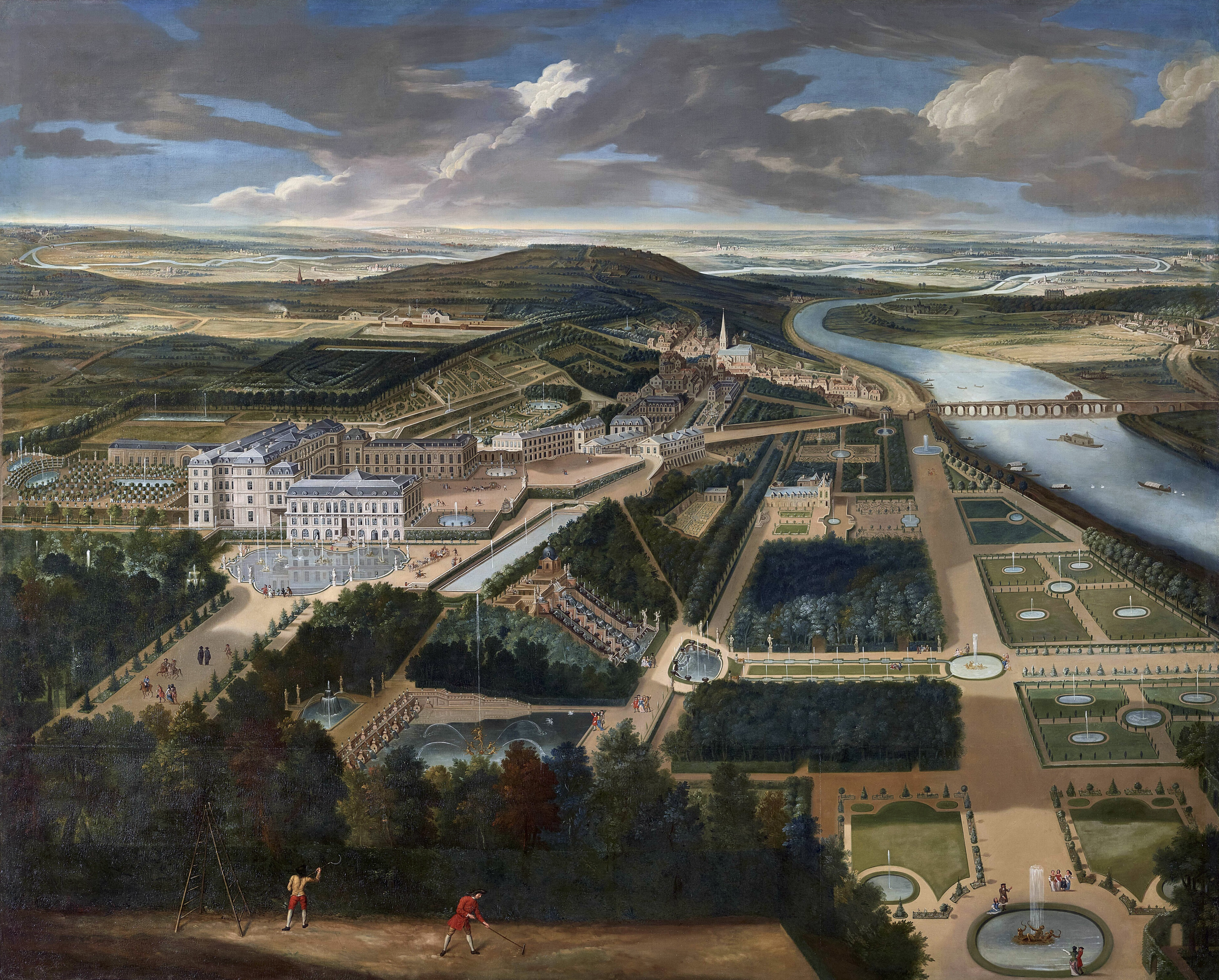 Bird's-eye view of the Château de Saint-Cloud